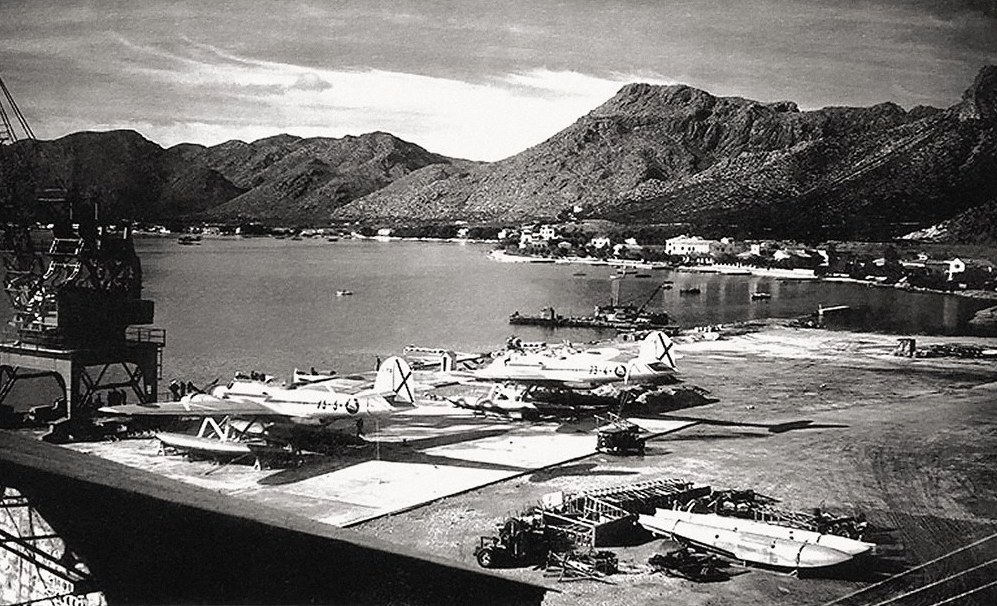 CANT Z.506 B "Airone" (Heron) high and dry at Pollensa harbour, 1939